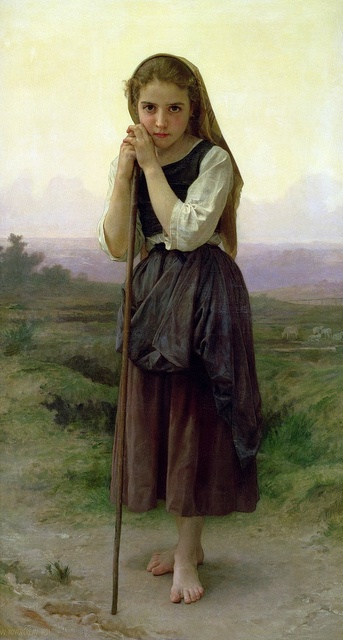 Petite bergère / Little shepherdess